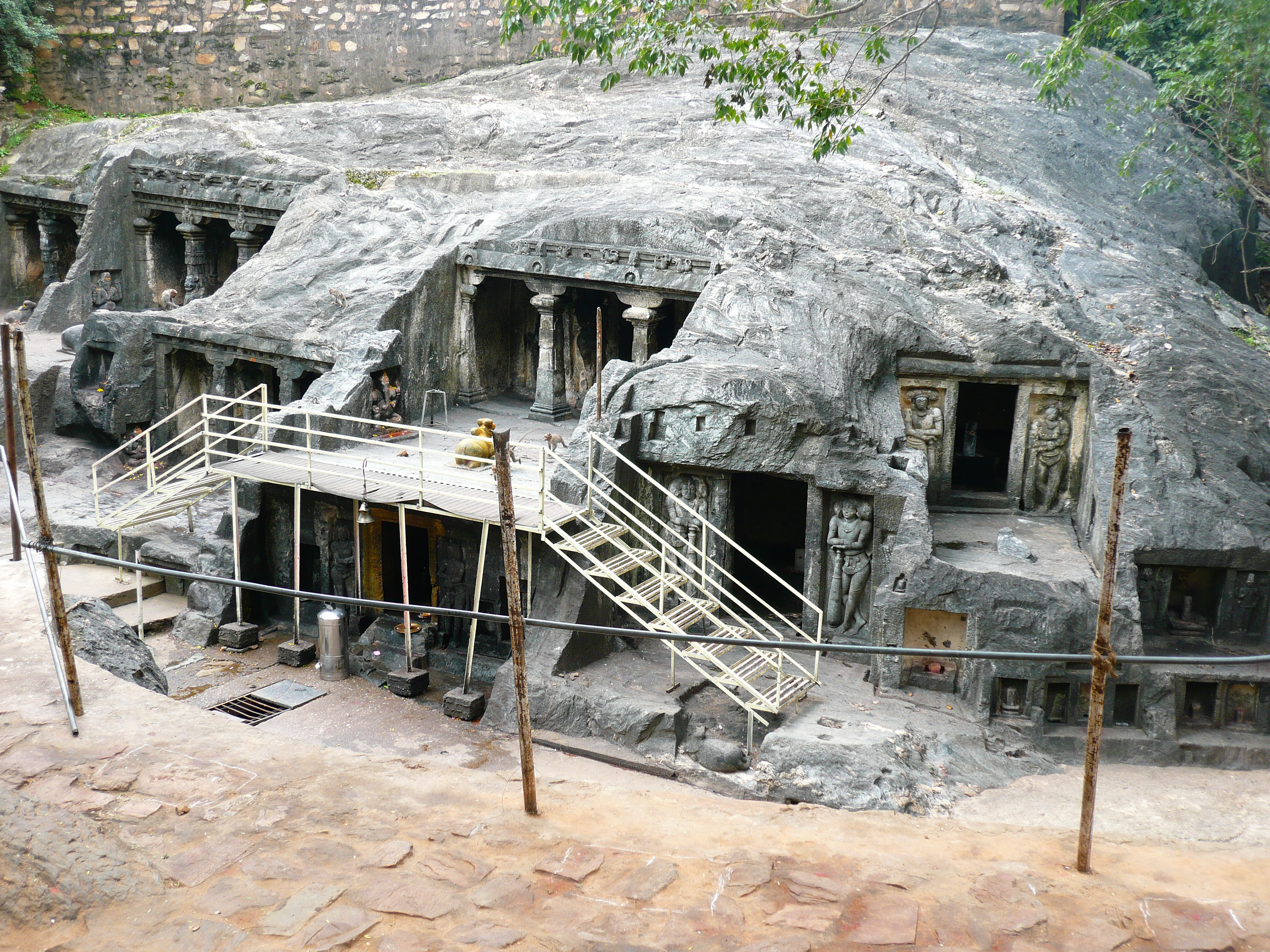 very old temple is famous for lord BHIRAVA